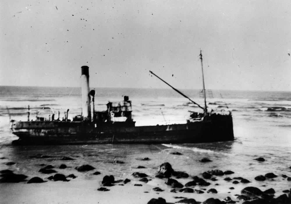 Tyalgum (ship) Tyalgum wrecked on rocks at the mouth of the Tweed River in August 1939.